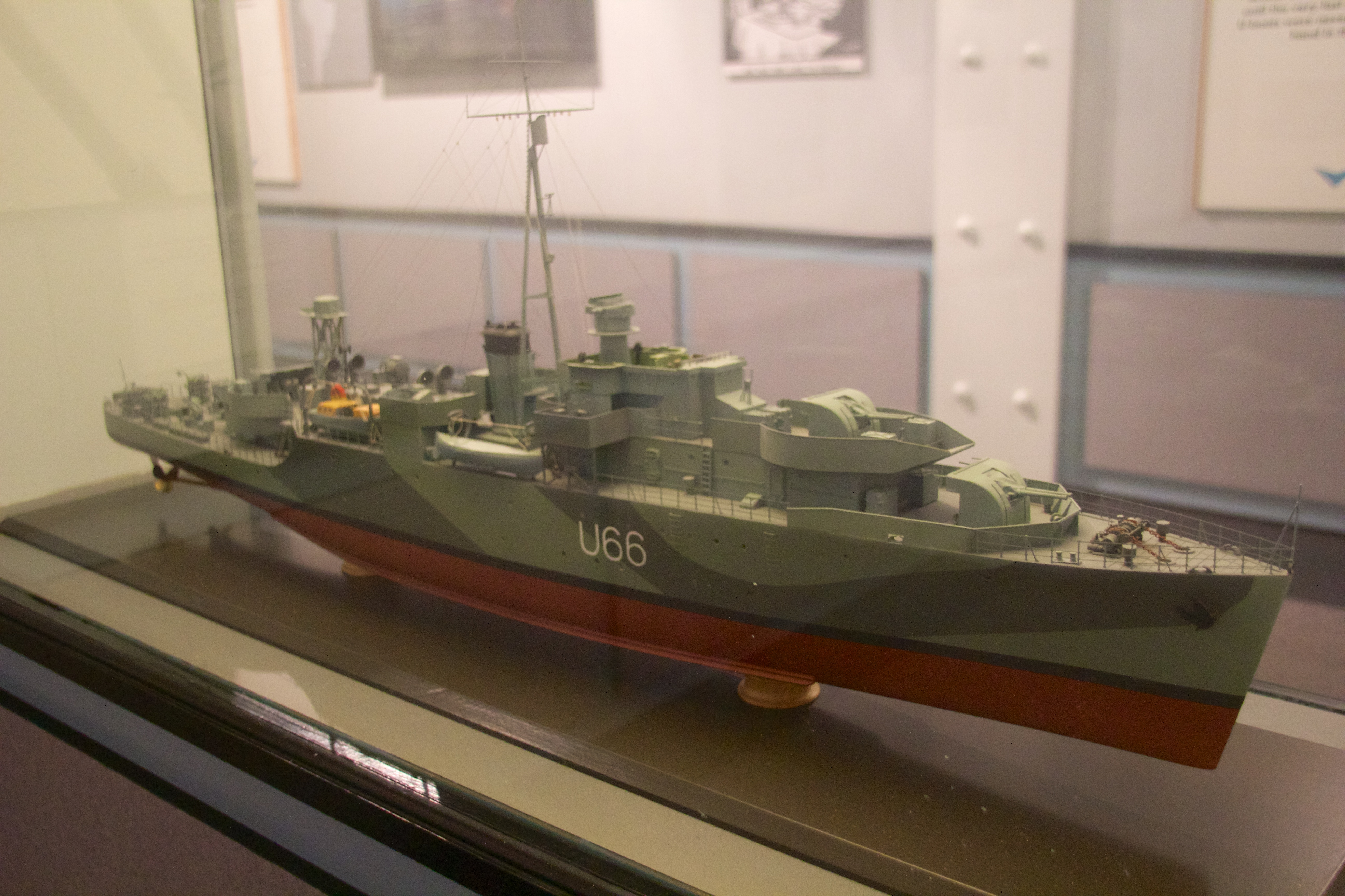 HMS Starling, 1943. Royal Navy modified 'Black Swan' class sloop, pennant no. U66. On display at the Merseyside Maritime Museum.